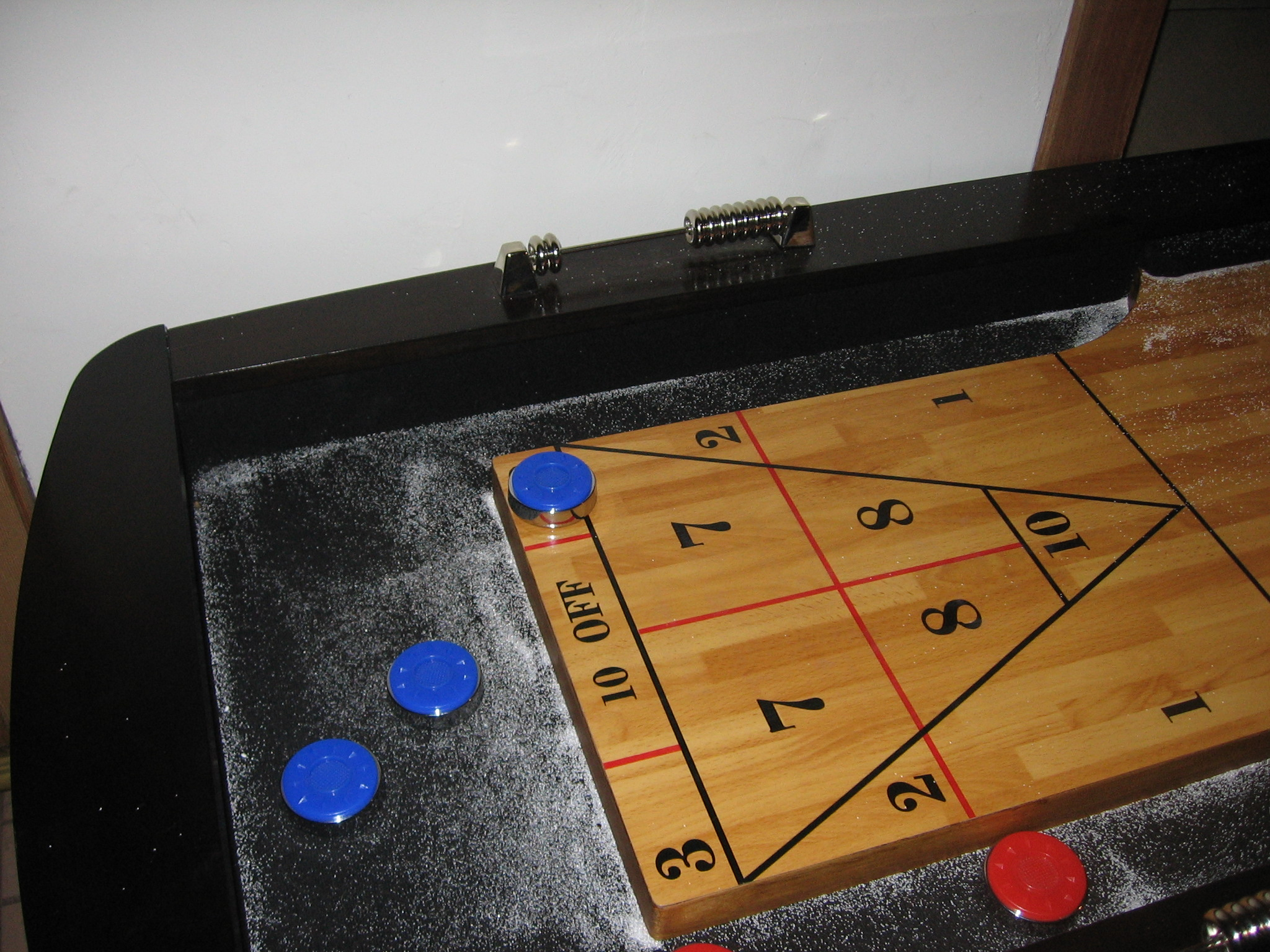 A table shuffleboard while at play, to show the scoring table. Under the blue puck is a "3".